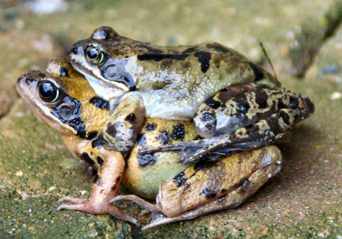 Common Frogs (Rana temporaria) in amplexus